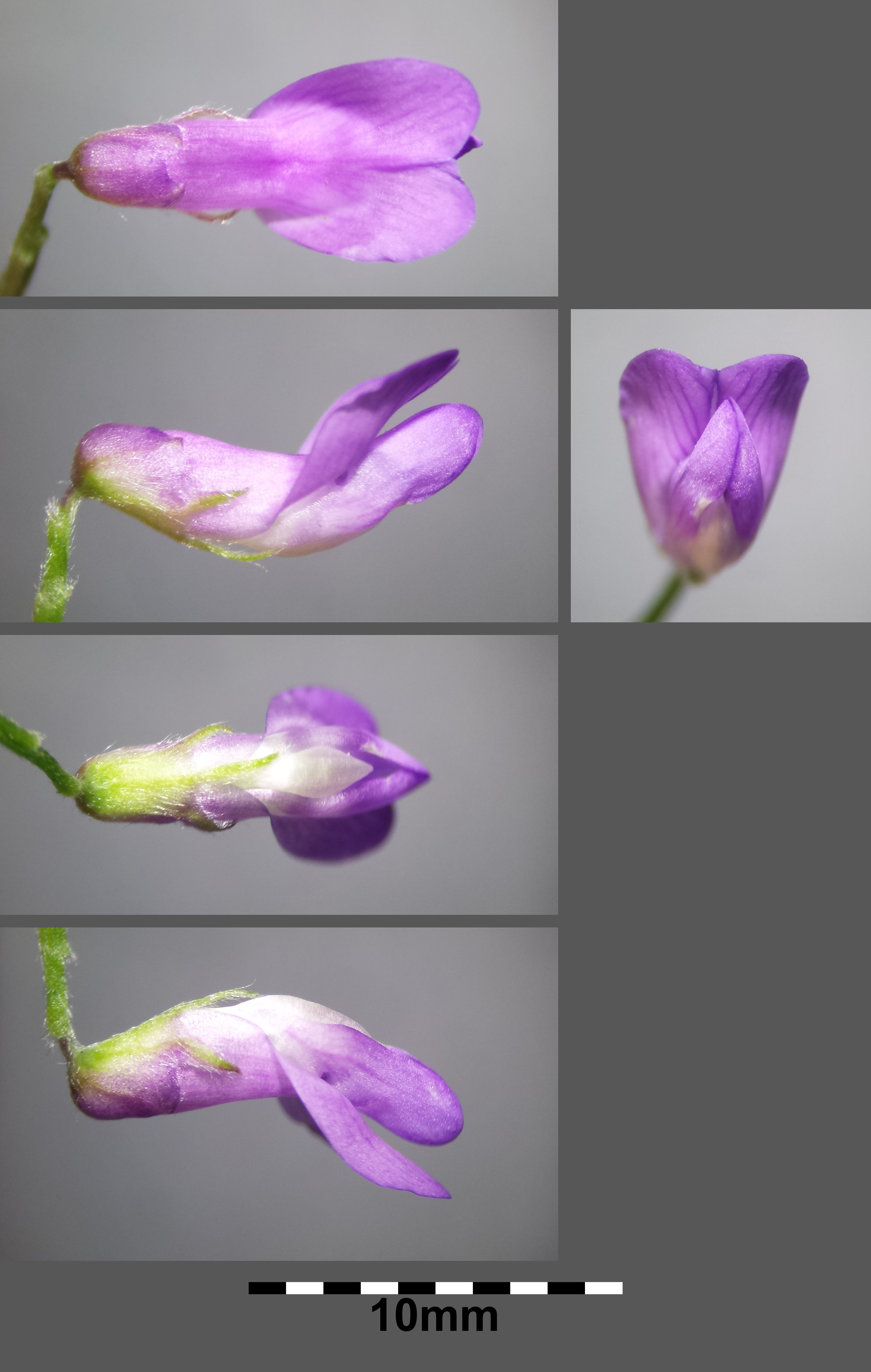 Flower Taxonym: Vicia cracca (s. strictiss.) ss Fischer et al. EfÖLS 2008 ISBN 978-3-85474-187-9 Location: Neue Donau, Vienna-Floridsdorf - ca. 160 m a.s.l. Habitat: bank slope